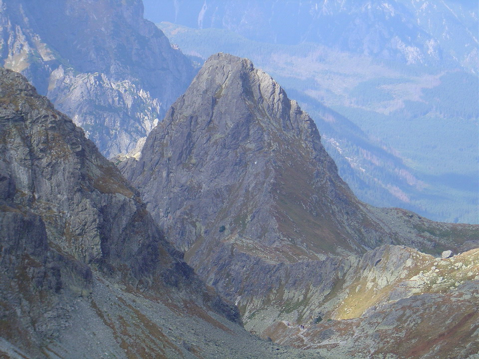 Hruba veza (peak) in Litvorova dolina (valley) — High Tatra Mountains, Tatra National Park, northern Slovakia.